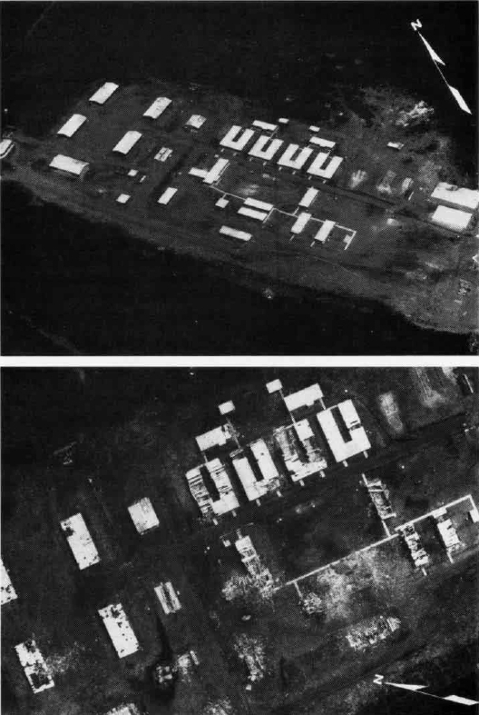 Two aerial photographs showing the Calivigny military barracks at Egmont, Grenada, before and after attacks of U.S. Navy aircraft from the aircraft carrier USS Independence (CV-62), 27 October 1983.